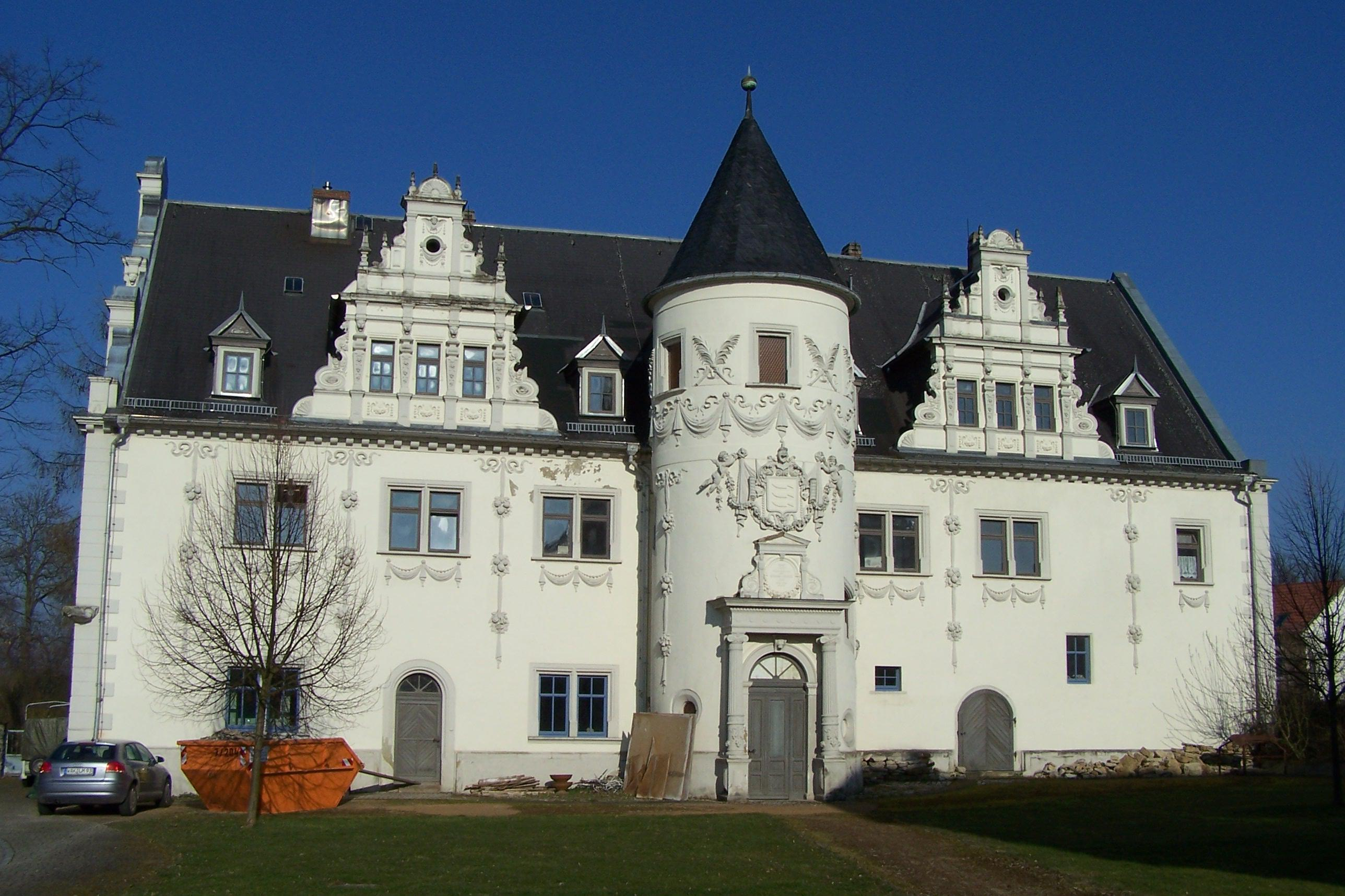 The castle in Tüngeda.